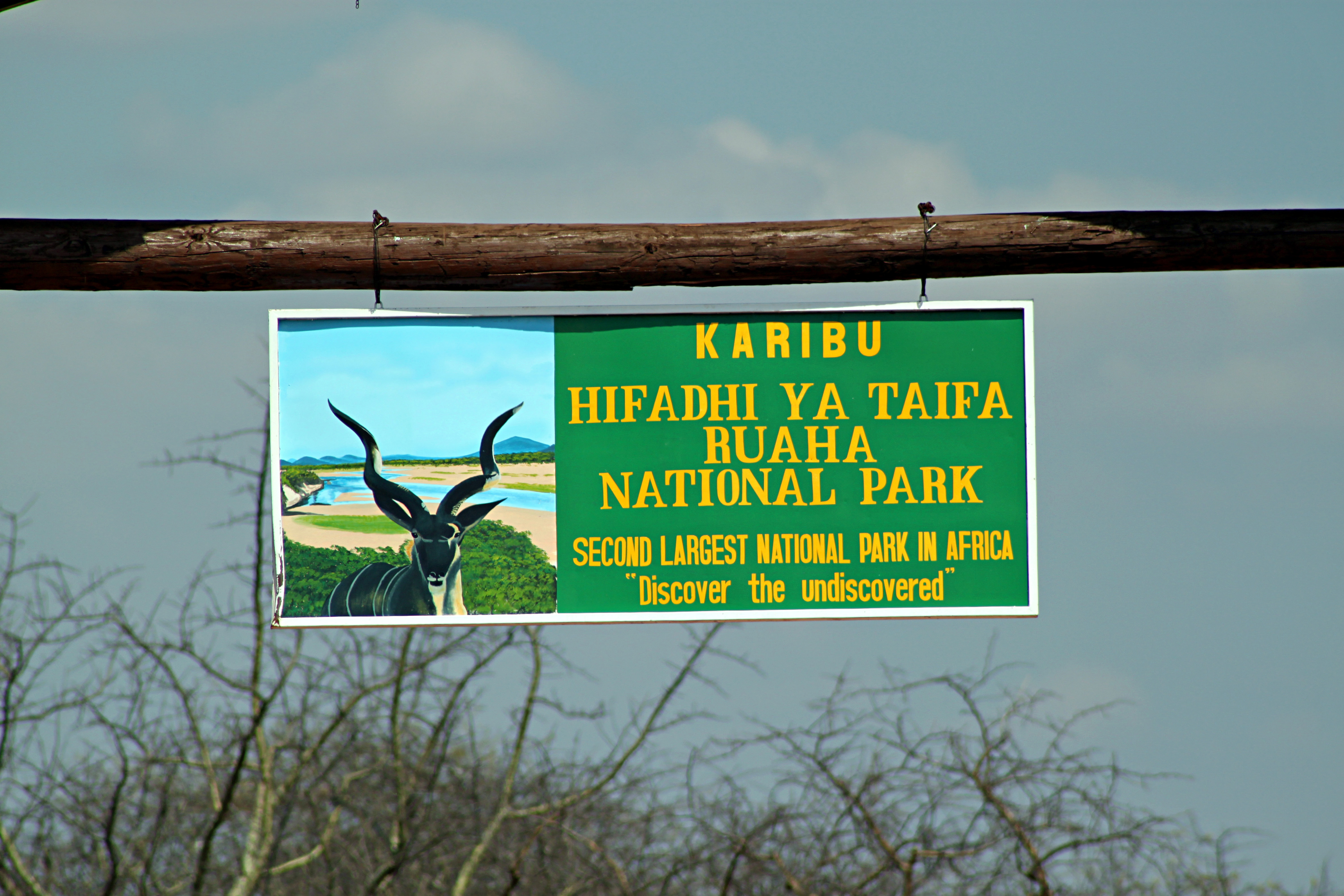 Iringa, Tanzania